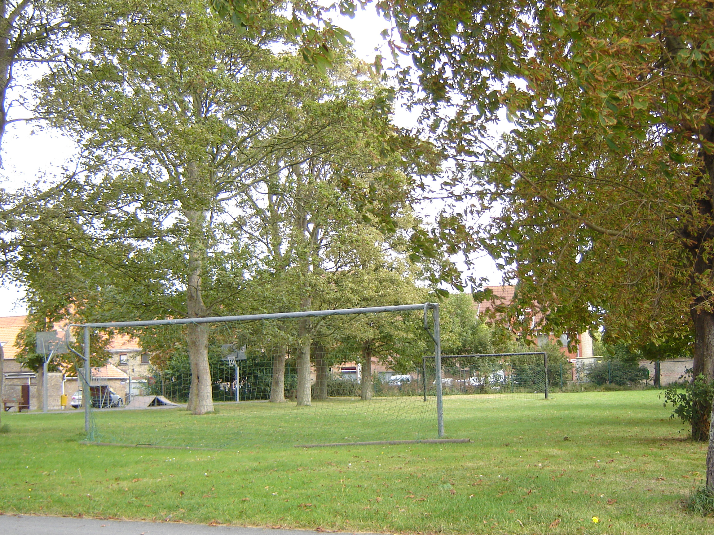 Kastanjeplein square (lit: "Chestnut Square"). Location of the former church of Saint Catherine and churchyard of village of Sint-Katharinakapelle, nowadays merged into Pervijze. Pervijze, Diksmuide, West Flanders, Belgium